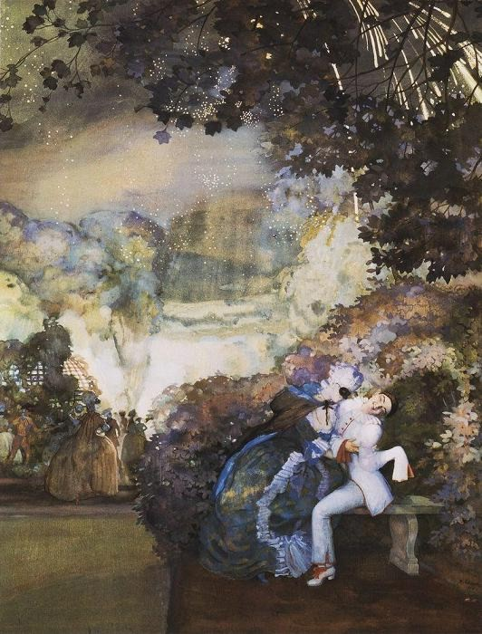 Piero and a Lady